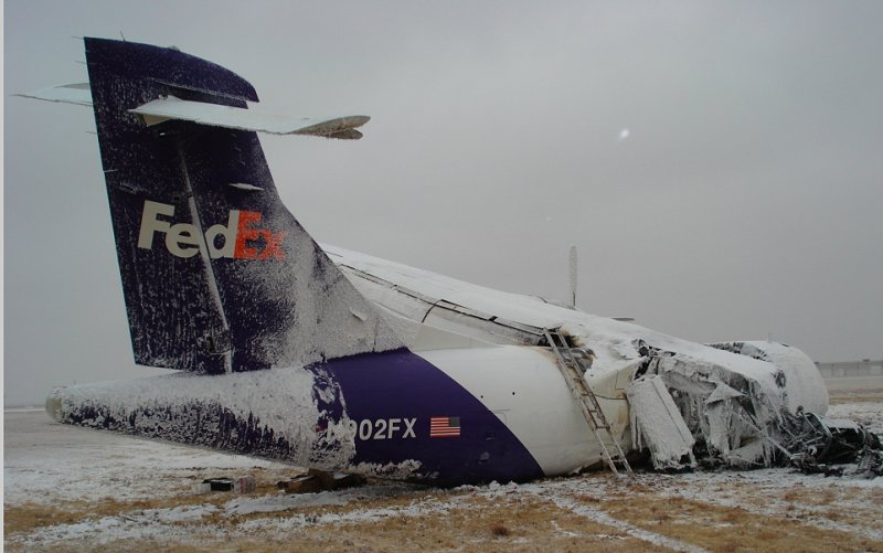 On January 27, 2009, at 4:37 a.m. CST, an ATR 42-320 (N902FX) operating as Empire Airlines flight 8284 between Ft. Worth and Lubbock, was on an instrument approach when it crashed short of the runway.